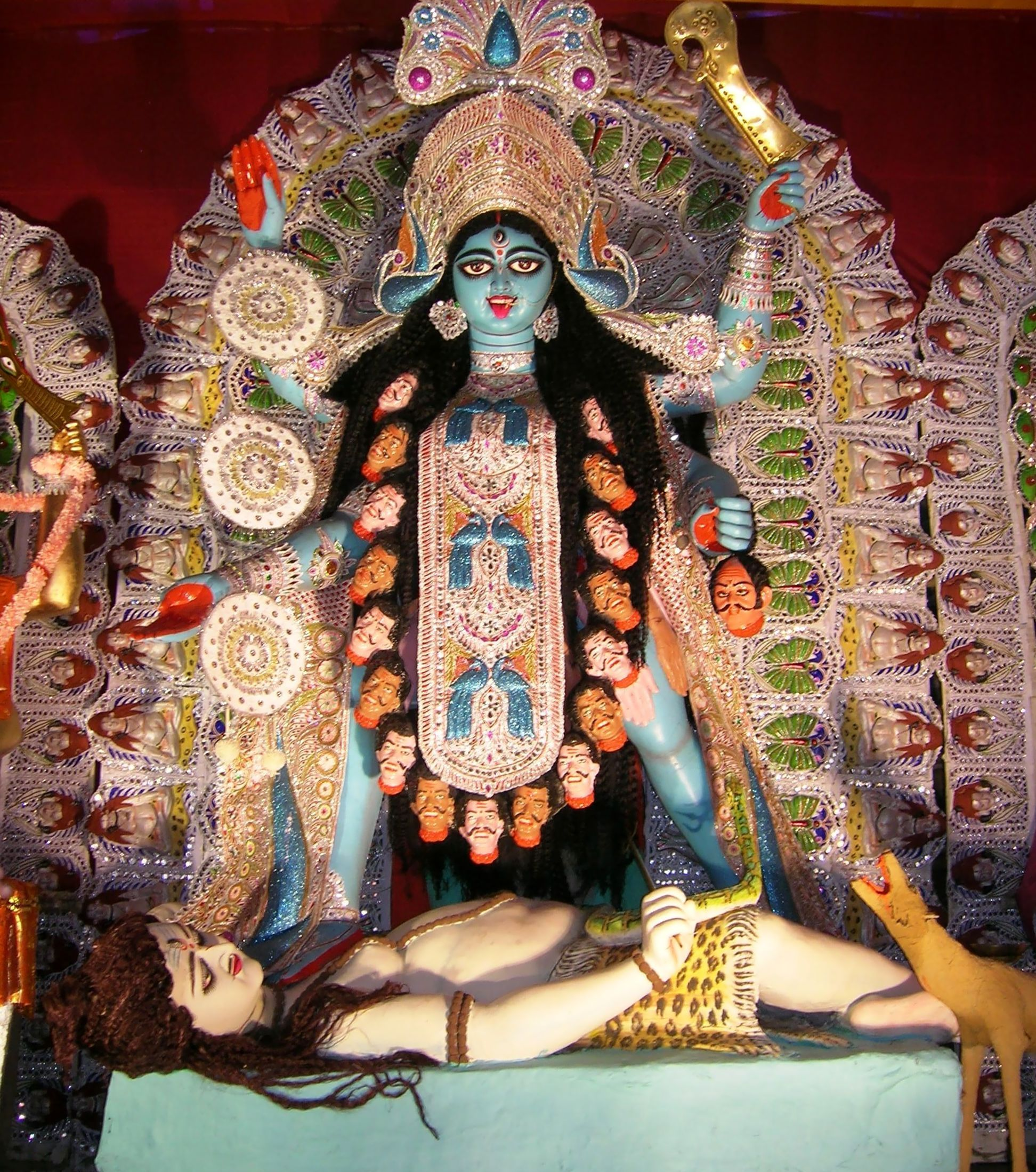 Shyama at a Sarbojanin Kali Puja pandal at Shakespeare Sarani, Kolkata, 2010.